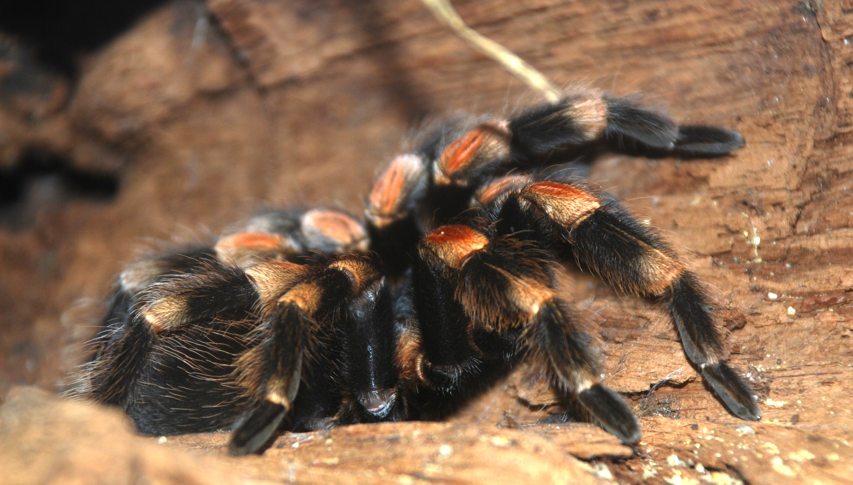 Invertebrates in Smithsonian National Zoological Park: Brachypelma smithi Orange knee tarantula